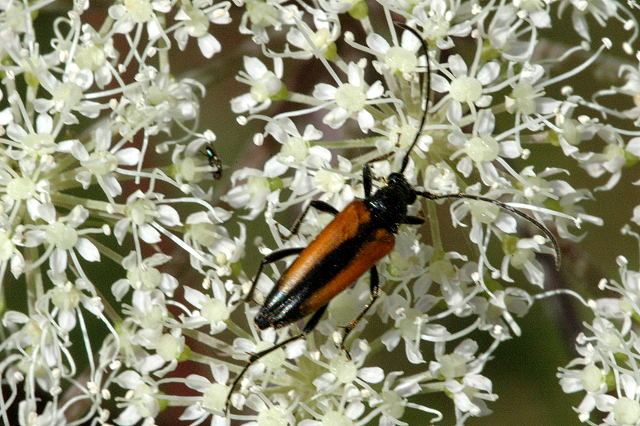 Picture taken in Commanster, Belgian High Ardennes . Species: Stenurella melanura male